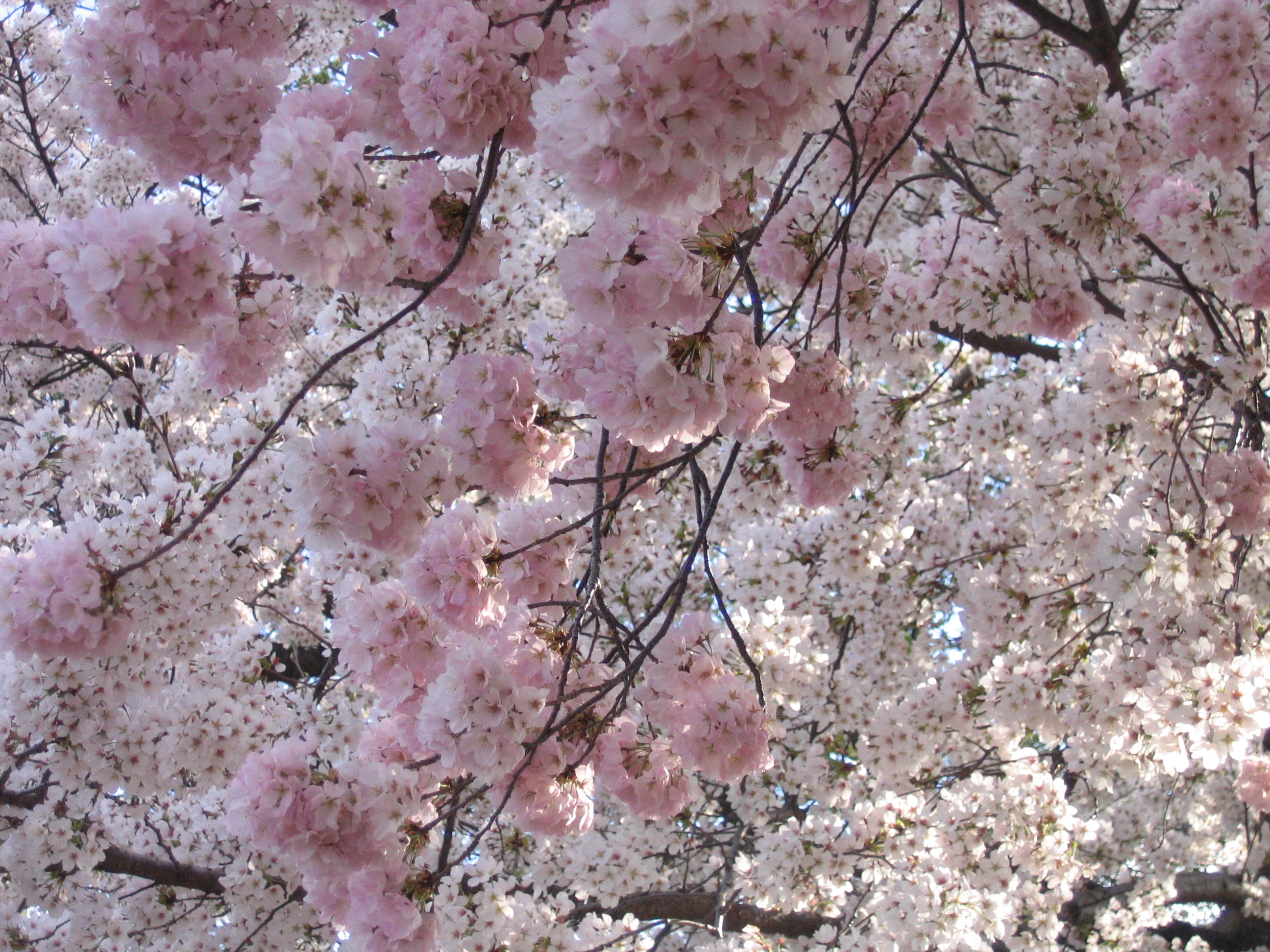 The 2006 Cherry Blossoms in Washington D.C., USA.